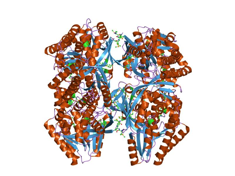 Cartoon representation of the molecular structure of protein registered with 1k47 code.